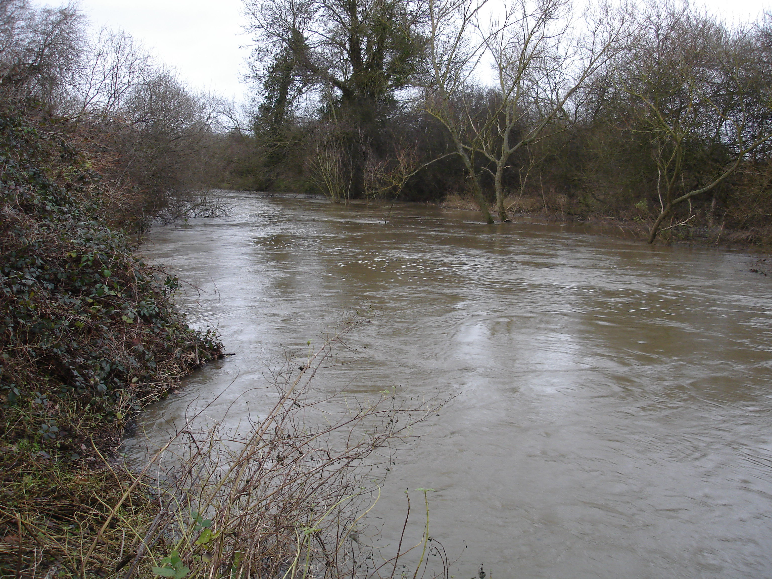 River Wey near Pyrford, Surrey